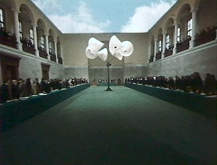 The parliament in Bratislava